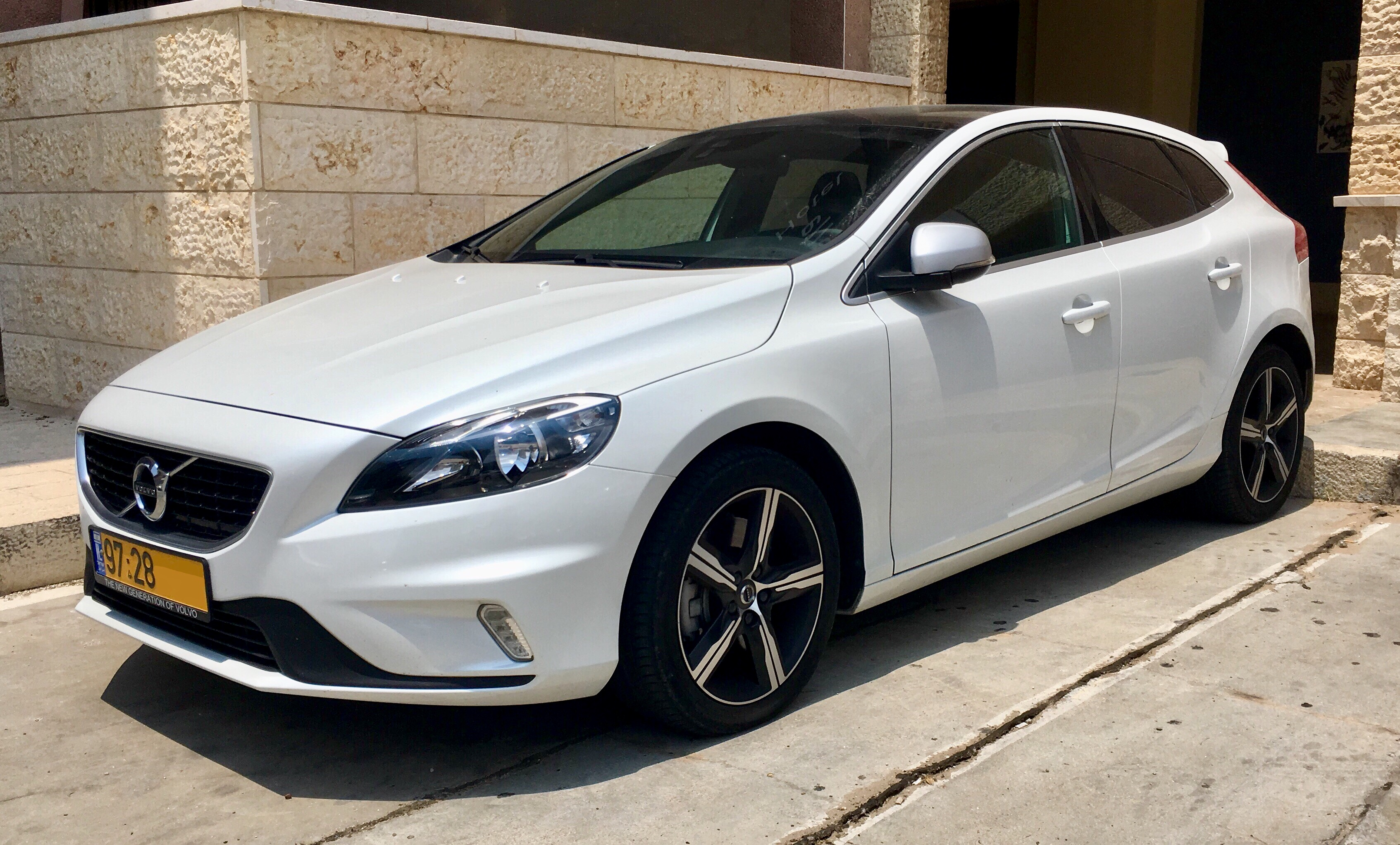 Facelifted Volvo V40 R-Design captured in Haifa, Israel